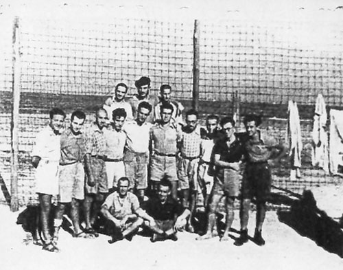 M\'aapilim at Mazra camp